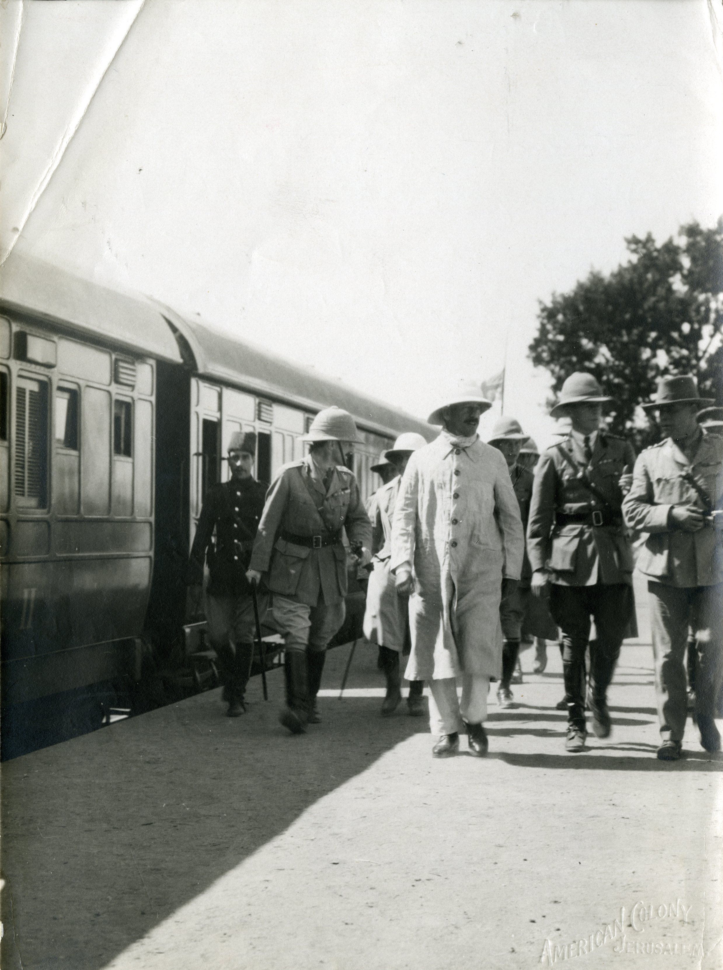 Herbert Samuel, High Commissioner of Palestine, wearing overalls, ready to drive a steam locomotive hauling a train to Jaffa. Beside him is Ronald Storrs, District Director and Director of Transportation. The uniformed man furthest to the left, wearing a fez, is an officer of the British Palestine Police.